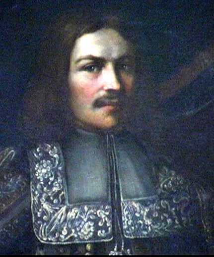 Johann Baptist Moscon, nobleman